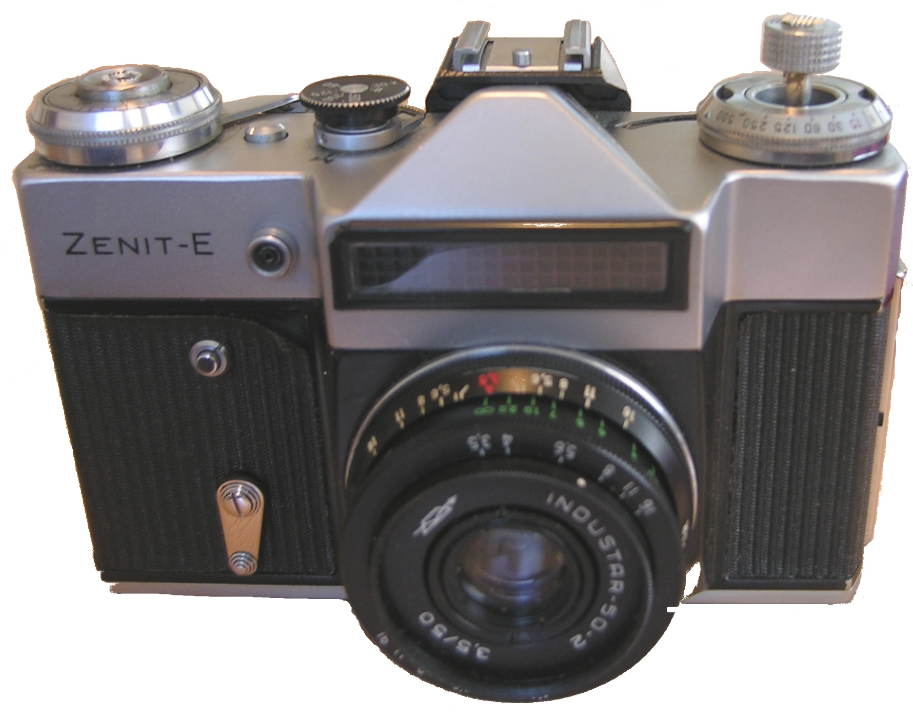 Photocamera Zenit - E